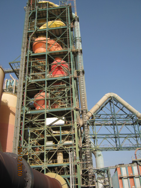 Kiln pre heater- Nesher cement, Ramla, Israel